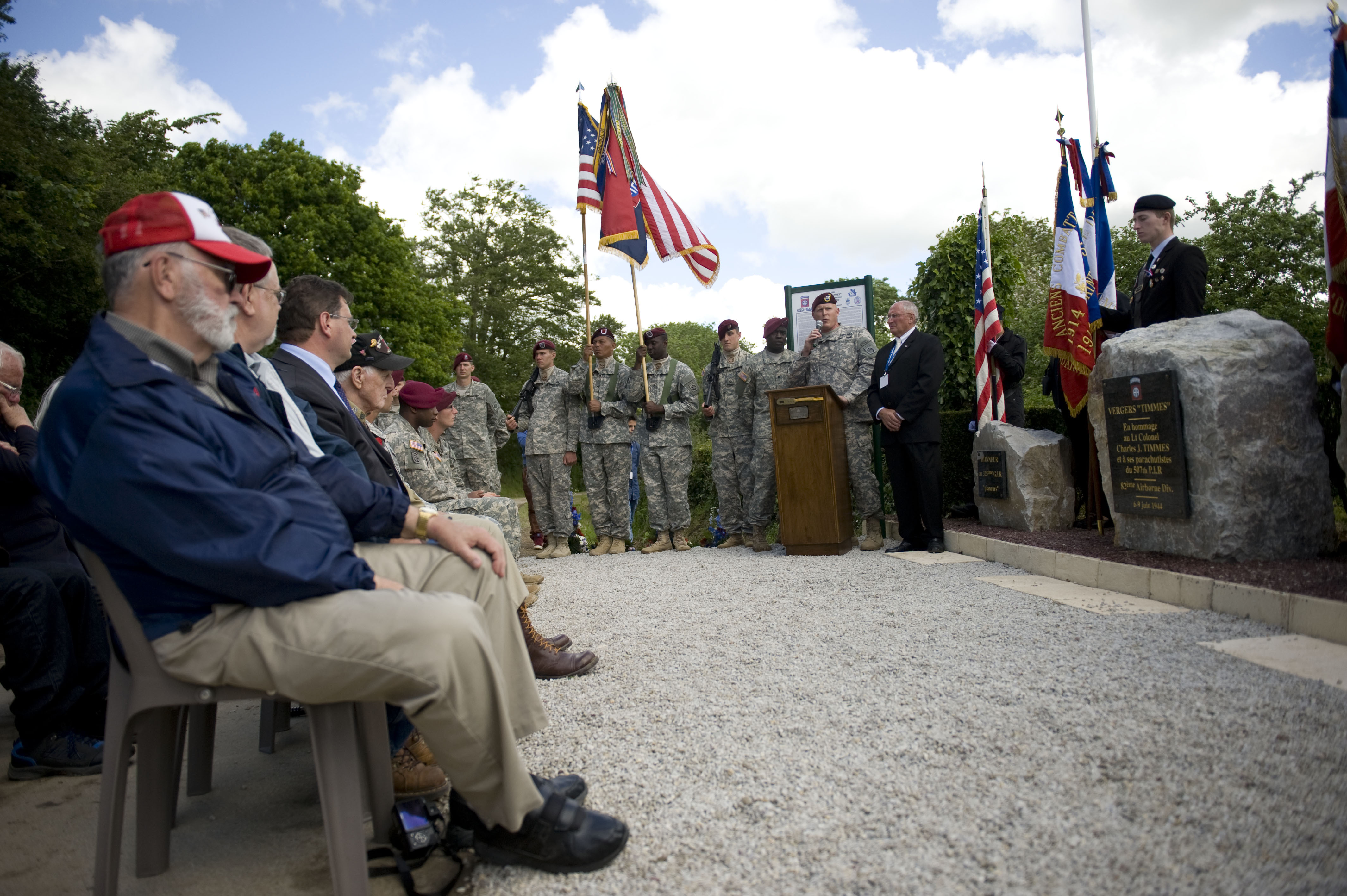 Col. Trevor J. Bredenkamp commander of 1st Brigade Combat Team, 82nd Airborne Division, speaks to attendees during a ceremony held here June 4 commemorating Lt. Col. Charles J. Timmes, the commander of 2nd Battalion, 507th Parachute Infantry Regiment, 82nd Airborne Division, during the invasion of Normandy who landed in an orchard during the invasion of Normandy and held his position for three days before being able to evade the enemy. The event was one of several commemorations of the 70th Anniversary of D-Day operations conducted by the Allies during WWII, June 6, 1944. Task Force Normandy, led by the 173rd Airborne Brigade out of Vicenza, Italy, has organized 650 personnel from twenty U.S. units and 6 nations, at the invitation of the French government, to participate in the events happening across the region of Normandy. For more information on the events and the history of the operations conducted here, go to